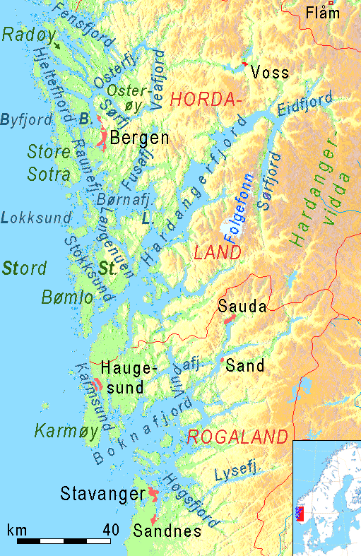 Physical map of Fjords and Sunds between Bergen and Stavanger, showing the position of Fensfjord, Hjeltefjord, Osterøy, Osterfjord, Vedfjord, Sørfjord, Raunefjord,Børnafjord,Lokksund,Langenuen, Stokksund and Bømlo, Hardangerfjord with Sørfjord and Eidfjord, Sauda, Haugesund, Karmsund and Karmøy, Boknafjord, Høgsfjord, Lysefjord.